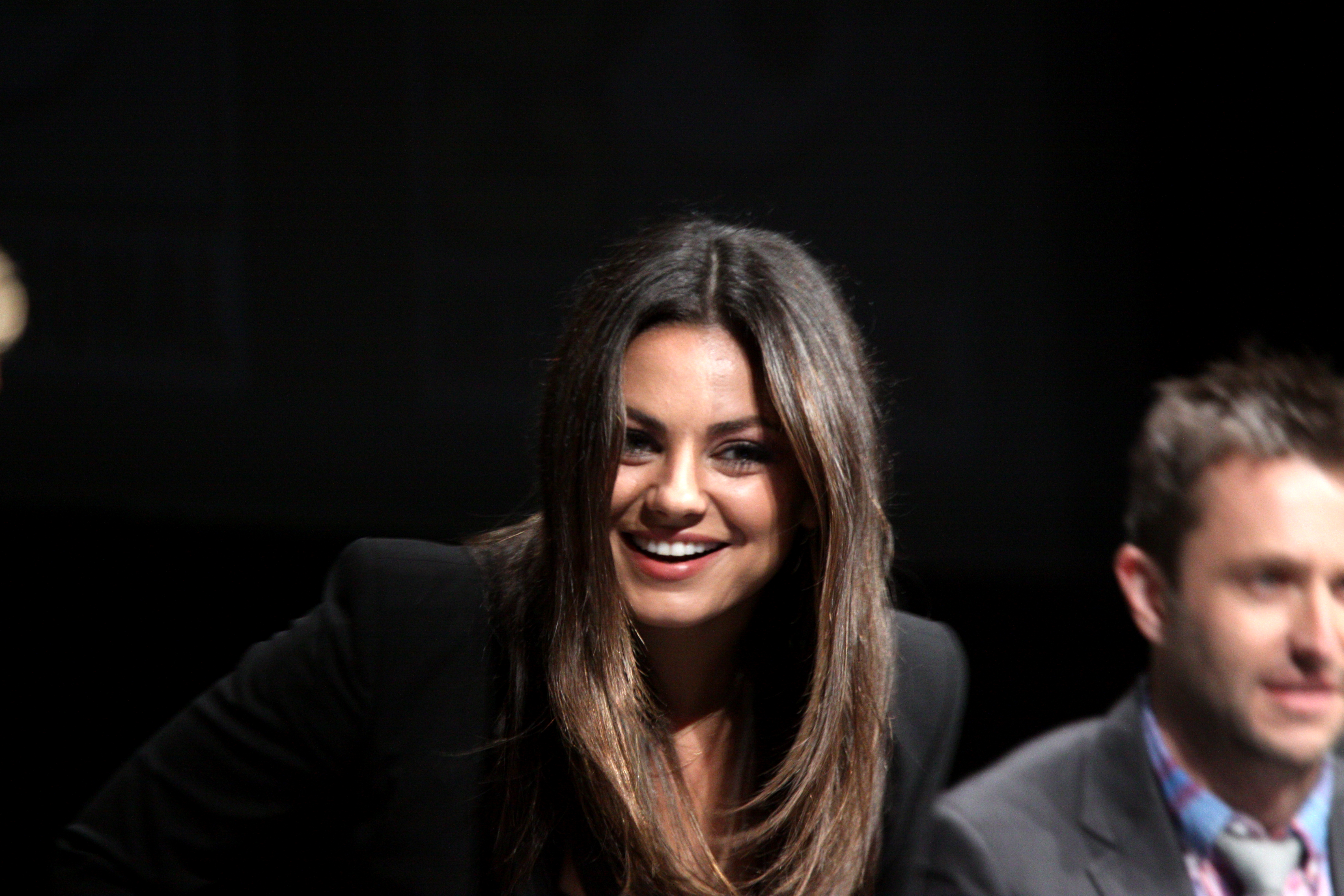 Mila Kunis speaking at the 2012 San Diego Comic-Con International in San Diego, California.